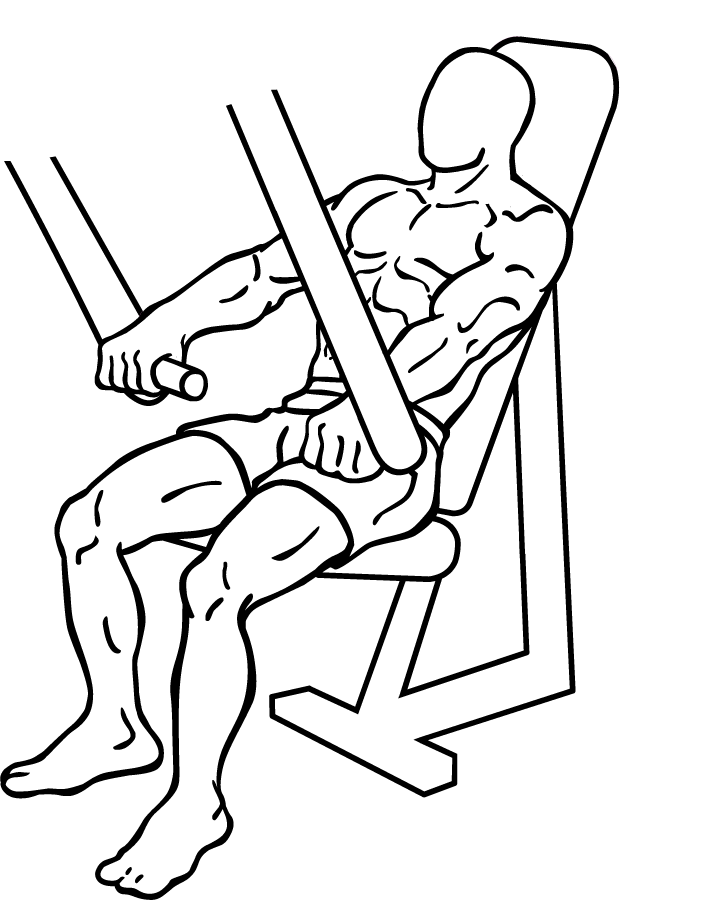 an exercise of chest